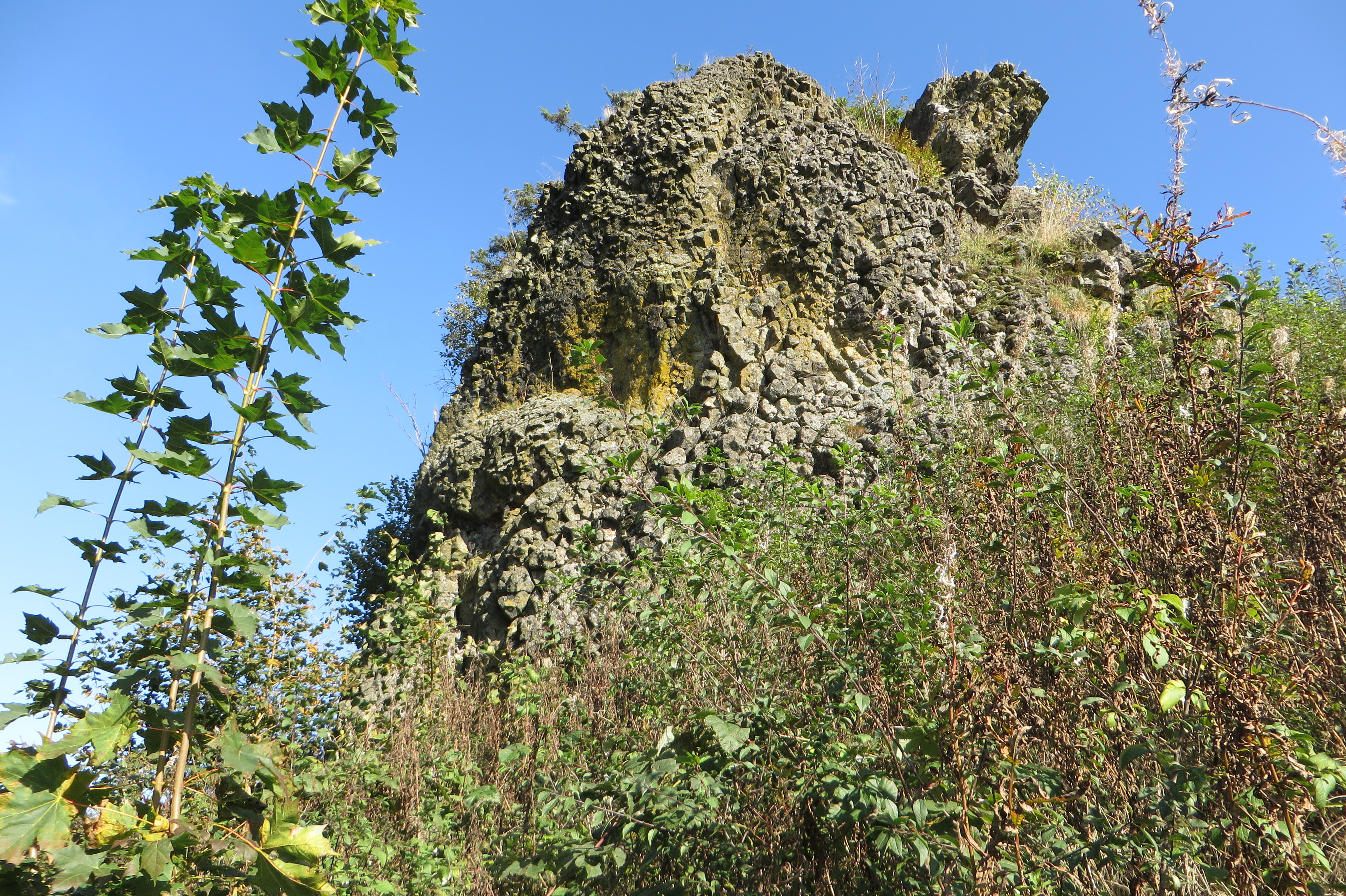 Poorly-developed columns of basanite lava at a volcanic geotope near Kothen, Bavaria, Germany. The rock is of Cenozoic age.